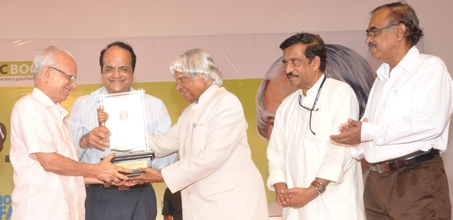 Prof sivadas receives PTB emeritus fellowship